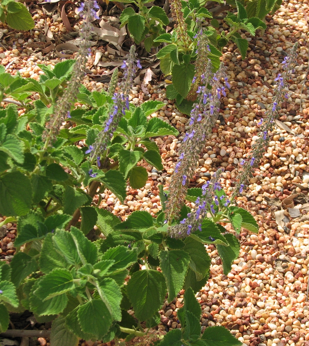 Plectranthus graveolens (cultivated, labelled) Royal Botanic Gardens, Cranbourne, Victoria, Australia